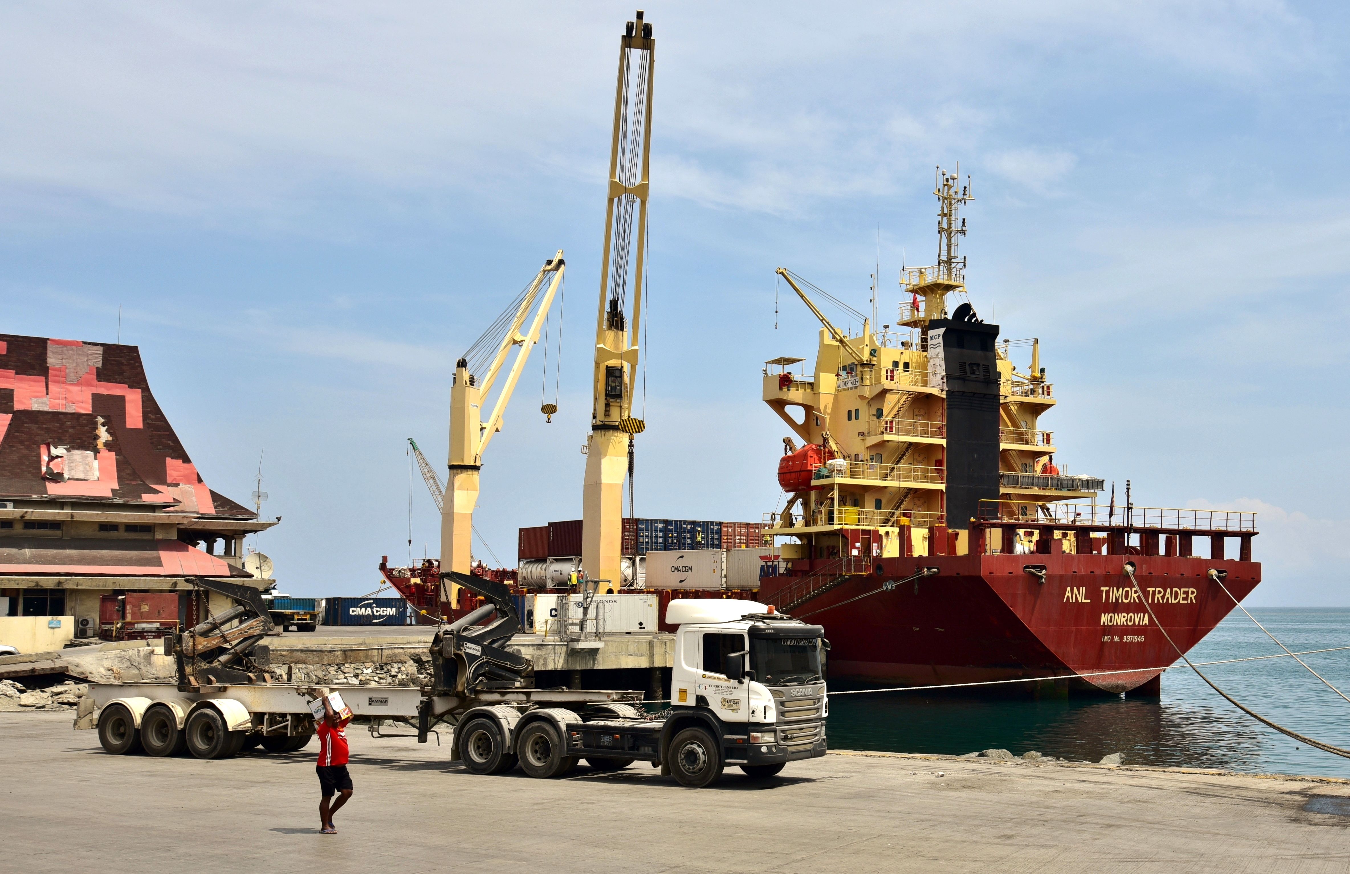 General cargo ship ANL Timor Trader berthed at Dili, East Timor